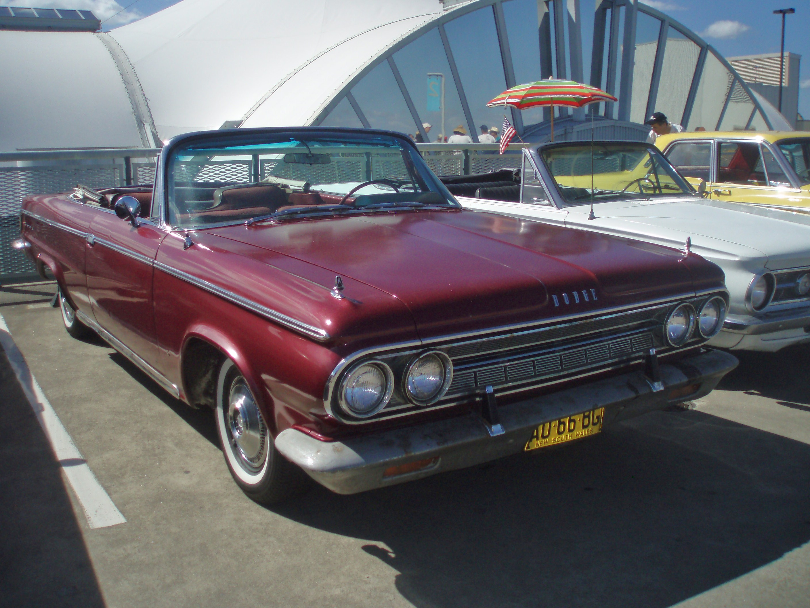 1964 Dodge Custom 880 convertible. Taken at the 2009 New South Wales All American Day, held at Castle Towers Shopping Centre, Castle Hill, Sydney.